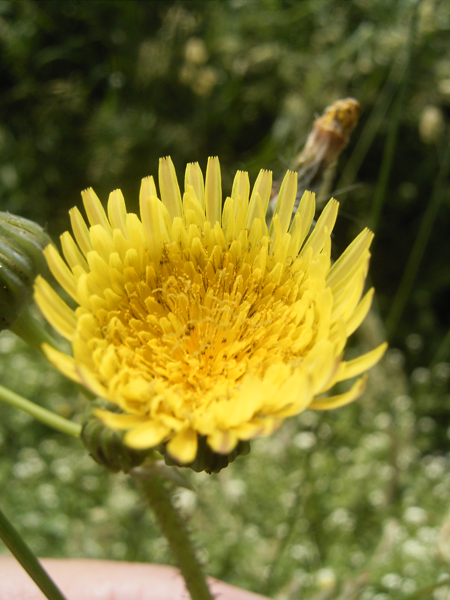 This photo shows a flower of Sonchus asper